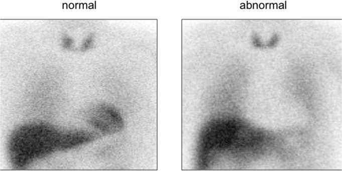 Normal and abnormal planar image of 123I-MIBG cardiac scintigraphy.